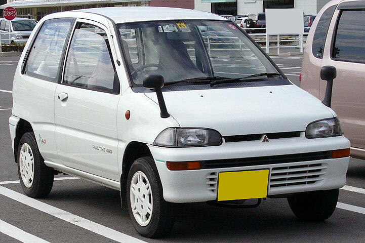 1989 Mitsubishi Minica Piace Van